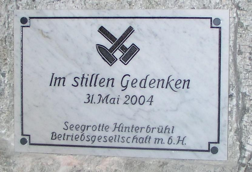 Plaque remembering the victims of the boat accident at the Seegrotte Hinterbruehl in 2004.